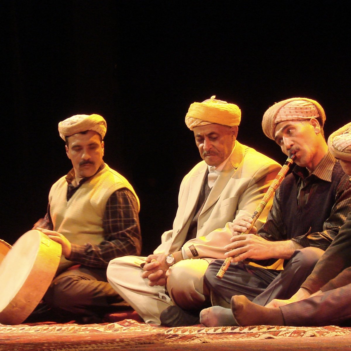 Gasba (flute) from Beni Salah (Algeria)